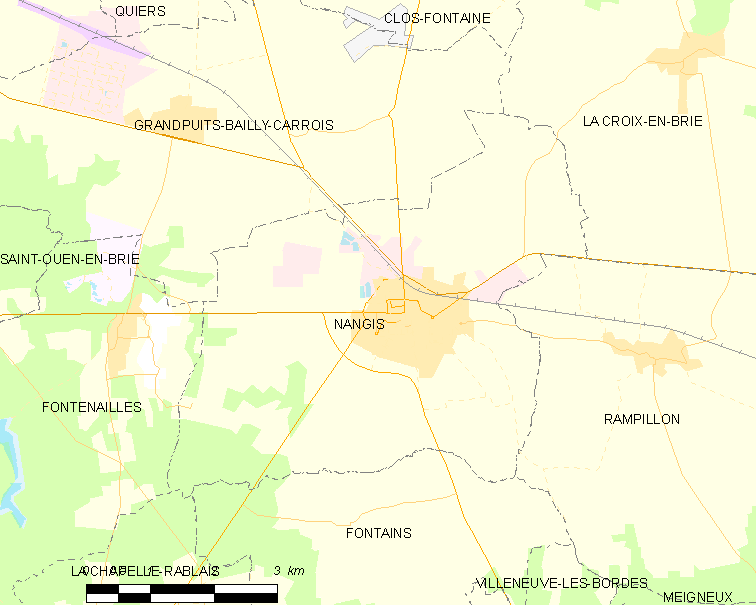 Map of French municipality Nangis